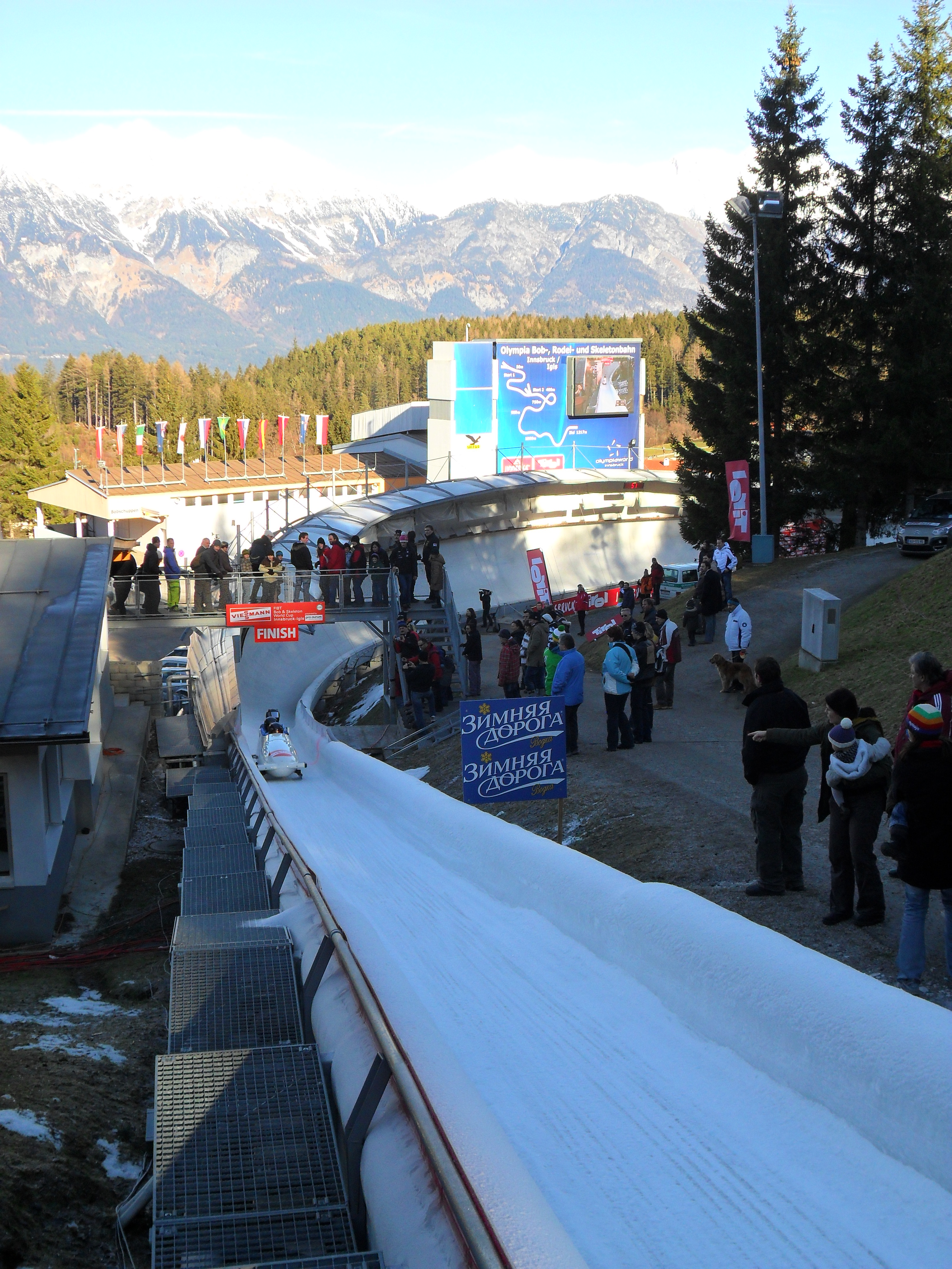 Bobsleigh World Cup Innsbruck-Igls 2011